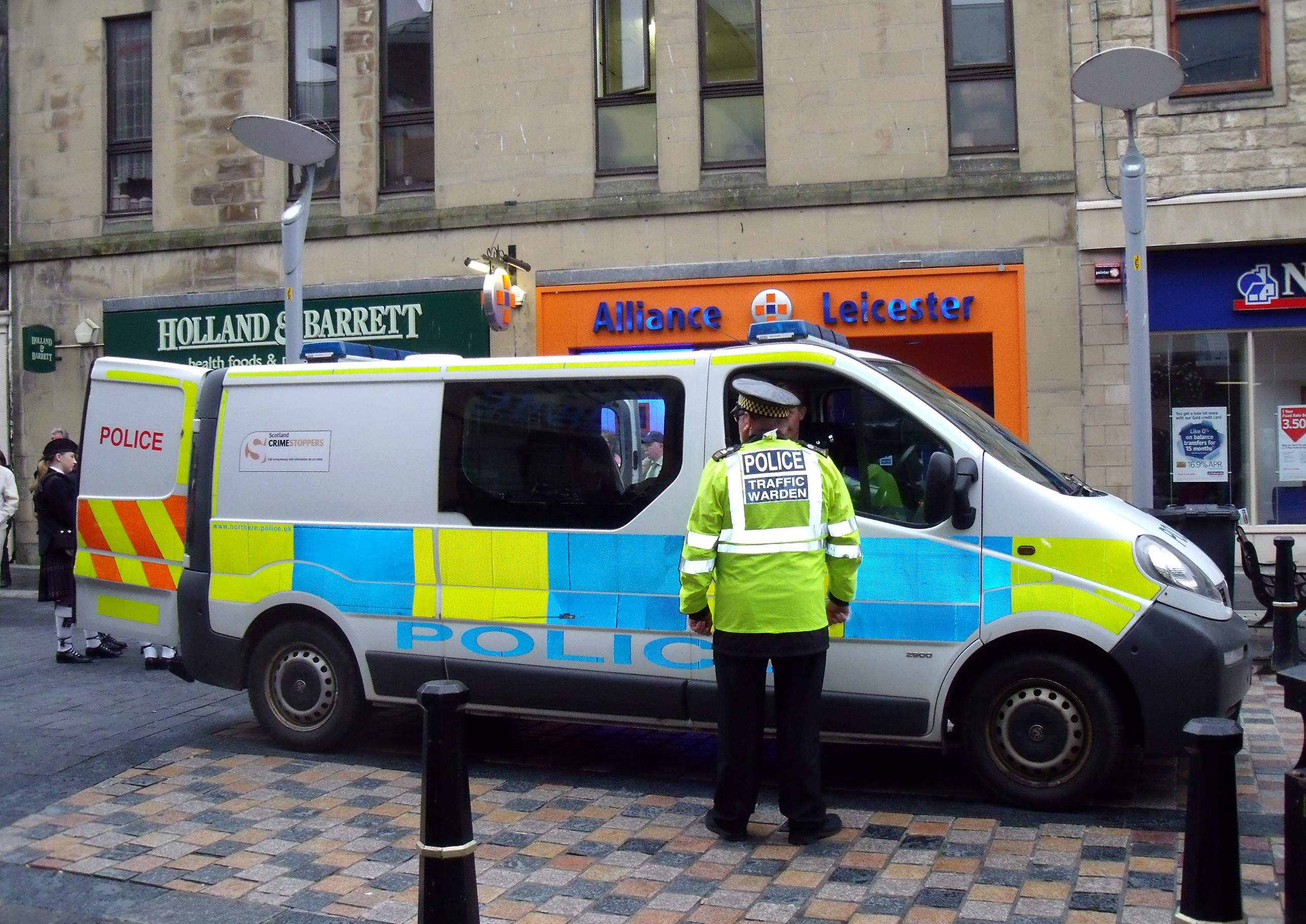 Special Constable (Scott) and Traffic Warden (Brian) await the Band forming up, to escort them through the city centre. Monday 26th July 2010 was the opening night of Inverness Tattoo and Northern Constabulary Pipe Band opened the event by parading through Inverness City Centre to the Tattoo venue at Northern Meeting Park. The Parade began dry but we got soaked half-way along the route! Grateful thanks to Northern Constabulary for providing a vehicle and driver to transport the Band's instruments/equipment